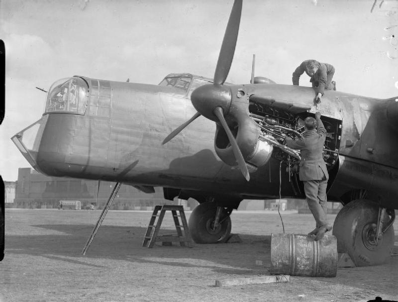 Royal Air Force Bomber Command, 1939-1941. Mechanics overhauling the Rolls Royce Merlin X engines of an Armstrong Whitworth Whitley Mark V of No. 102 Squadron RAF at Driffield, Yorkshire. The front turret is a Nash and Thompson Type FN16.